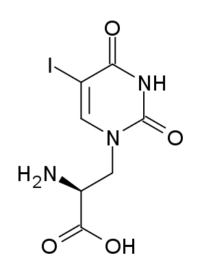 Structure of 5-Iodowillardiine